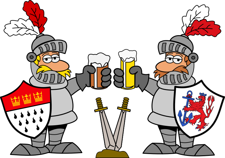 Cologne loves Duesseldorf - Prosit!